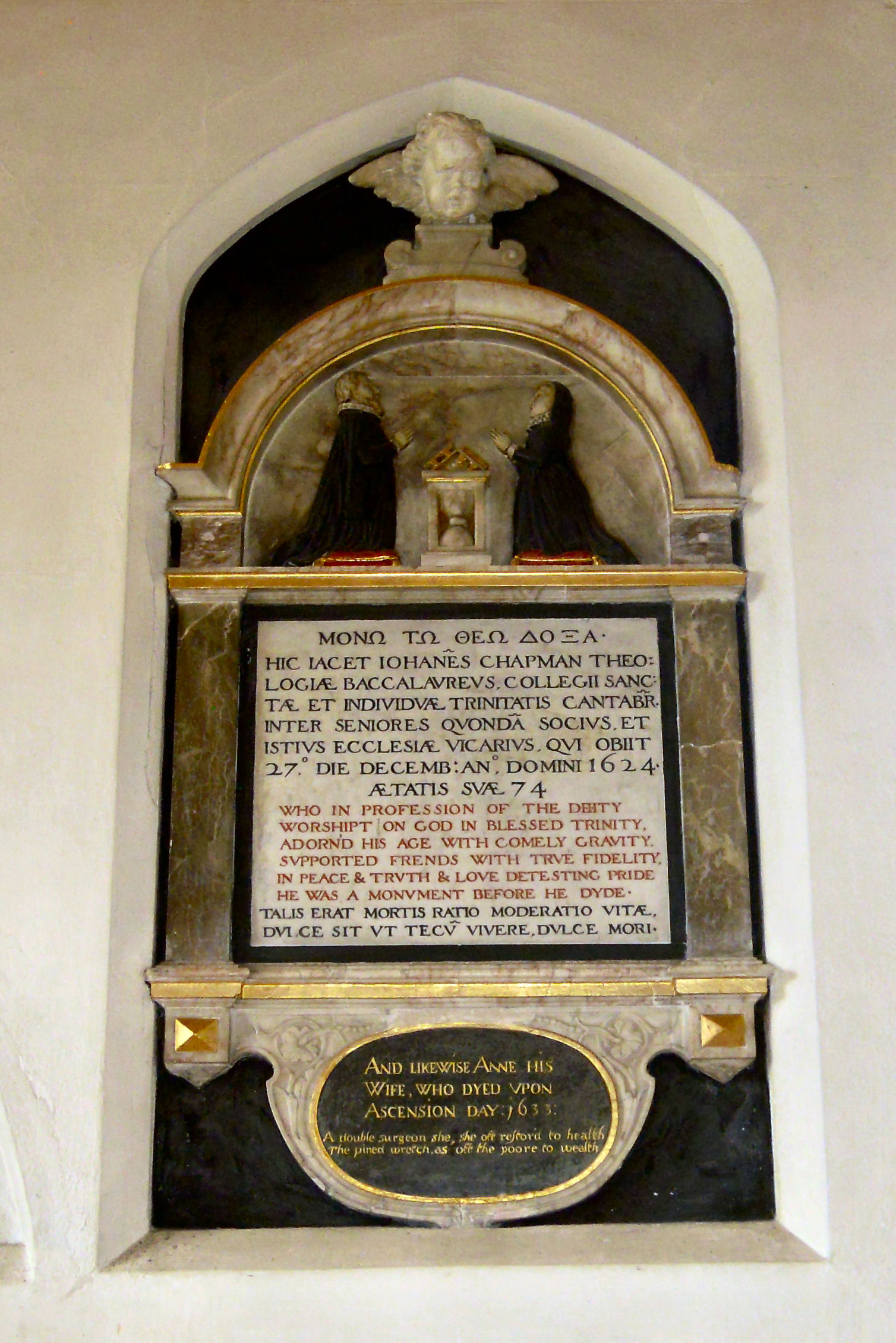 The tomb of Rev John Chapman (died 1624) and Anne Chapman (died 1633) in the chancel of the Church of All Saints, Willian